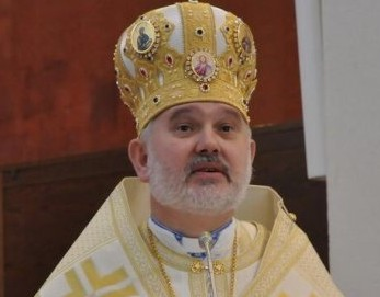 bishop of UGCC